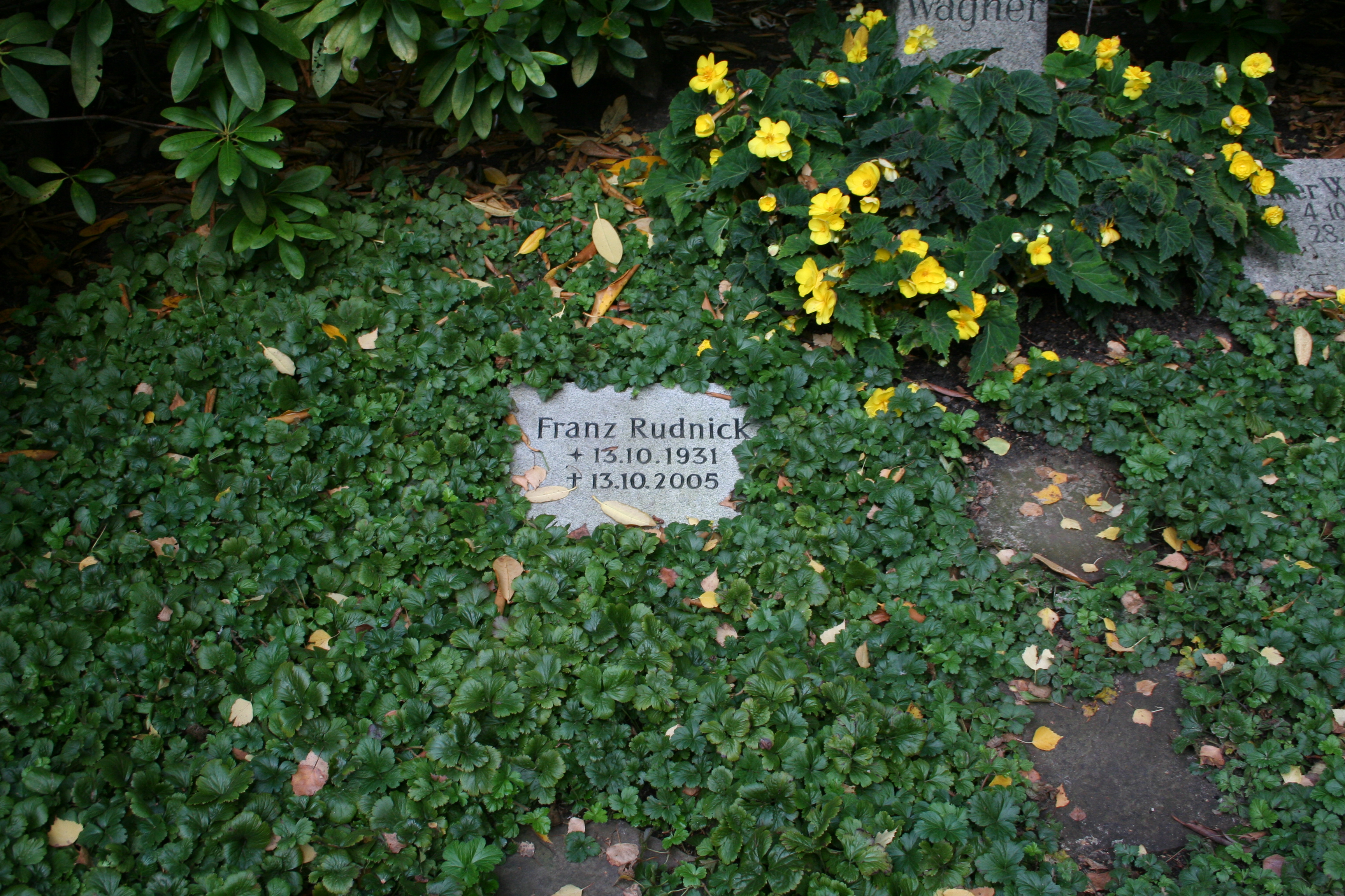 Grave Franz Rudnick